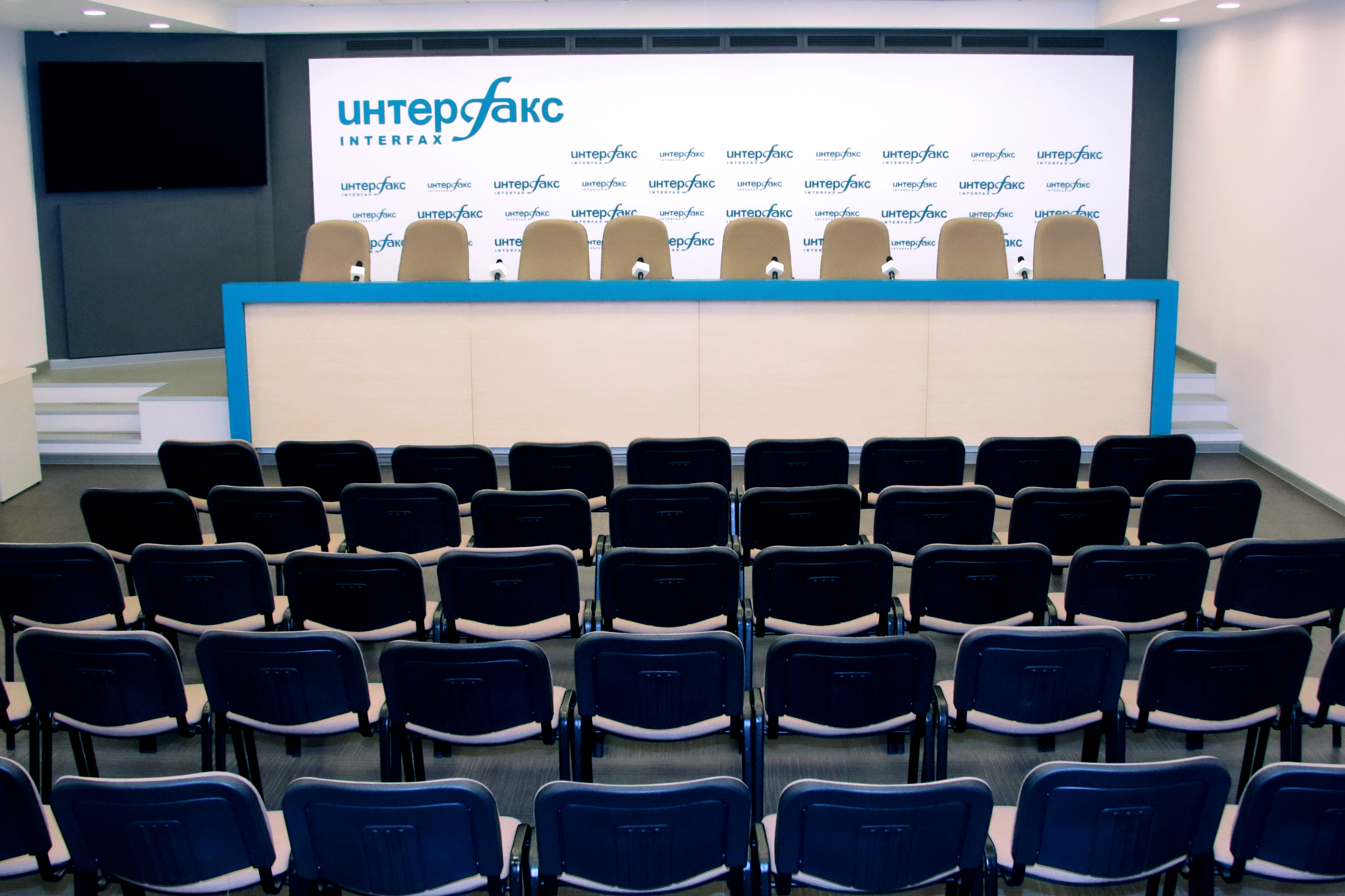 The conference room at the press ofice of Interfax in Moscow